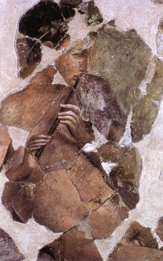 Fresco of Sheperd from Room AA/15, City on Magdalensberg, 1st century AD, now in: Landesmuseum für Kärnten, Klagenfurt.